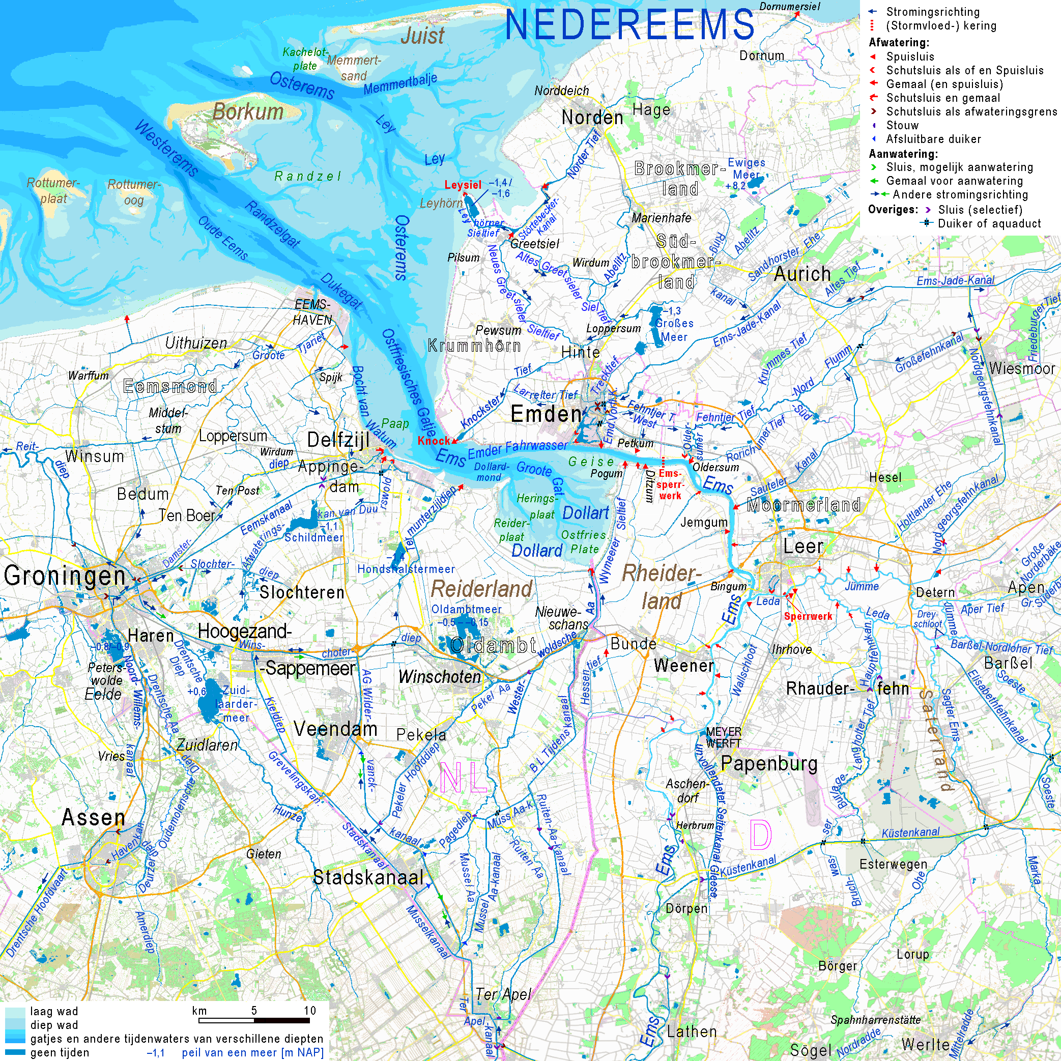 Estuary of river Ems; two levels of mudflats and four ground levels of tidal waterbodies distingushed by colour, different colour for waterbodies separated from tidal influence. Wihtout artificial shelter, almost all waterbodies in the region shown in this map would be liable to the tides. This map may be incomplete, and may contain errors. Don't rely solely on it for navigation.